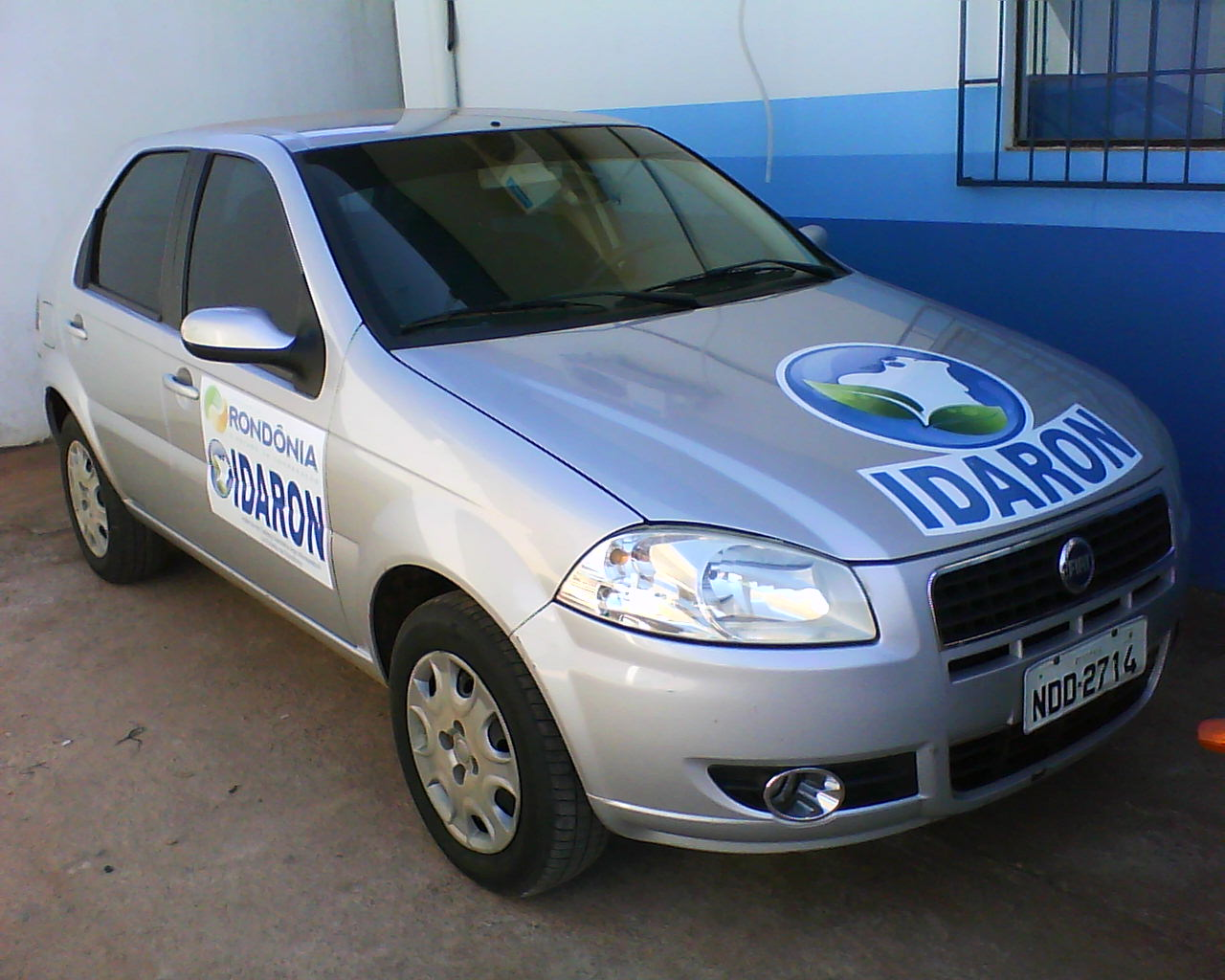 Car of IDARON for administrative services